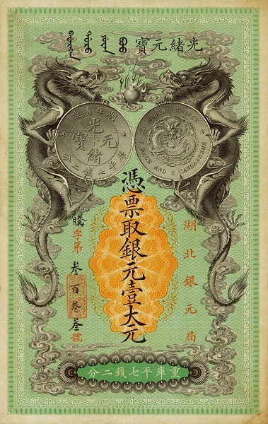 A provincial banknote issued by the Hupeh Government Bank during the Manchu Qing Dynasty.